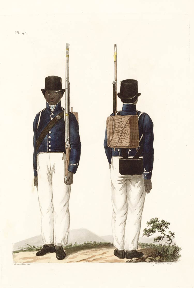 Drawing of the uniform and armament of the Colonial Guides of Surinam. In J.F. Teupen: Beschrijving hoedanig de koninklijke Nederlandsche troepen en alle in militaire betrekking staande personen gekleed, geëquipeerd en gewapend zijn. (1823)